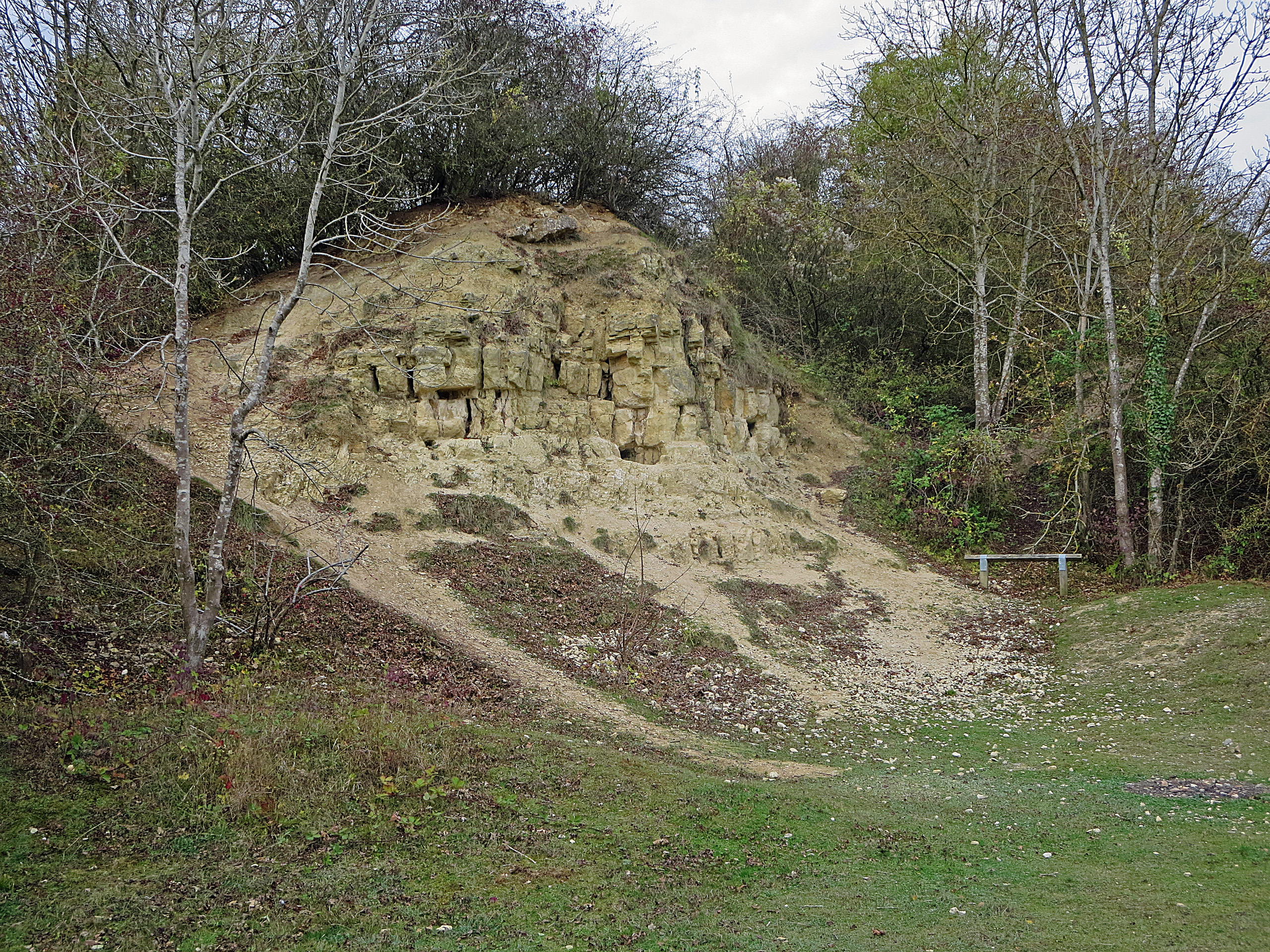 Lower face at Kirtlington Quarry